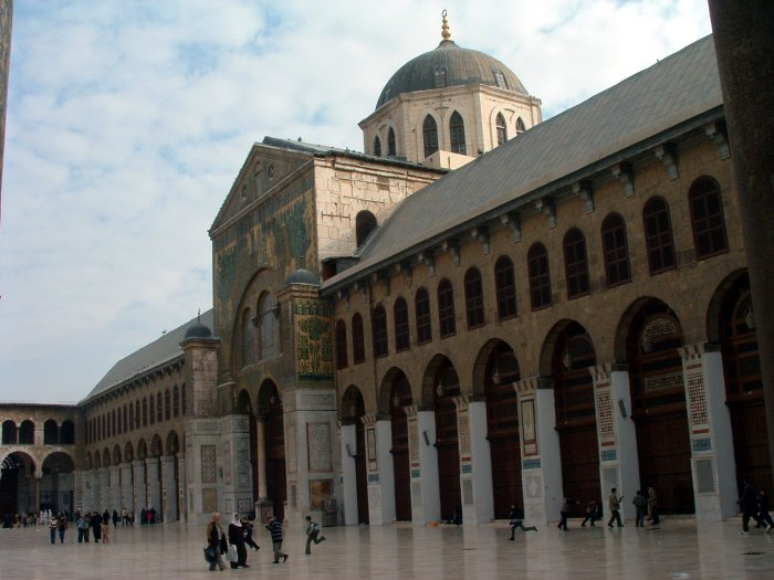 Omayyad Mosque in Damascus .. picture taken by Isam in February 2004. The Omayyad mosque was a church before the Muslims conquered Damascus in the 7th Century, it was known as Church of John the Baptist, because John the Baptist is buried in that occupied church.